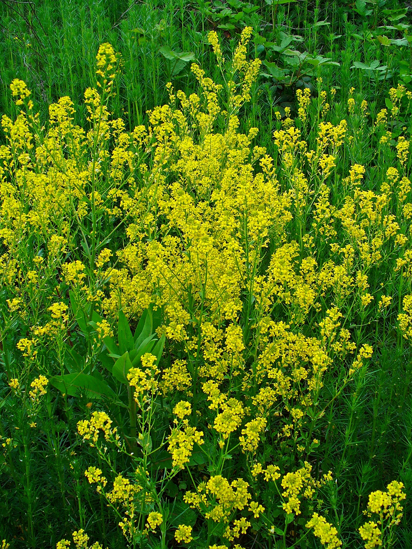 Barbarea vulgaris, Brassicaceae, Bittercress, Herb Barbara, Rocketcress, Yellow Rocketcress, Winter Rocket, Wound Rocket, habitus; Karlsruhe, Germany.